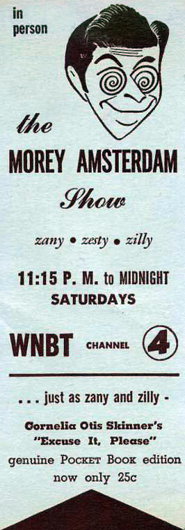 Promotional bookmark for the Steve Allen and Morey Amsterdam television programs which were seen on WNBT-TV, New York. The bookmark carried a promotion for Allen on one side and Amsterdam on the other. The promotion was shared with Pocket Books and Cardinal Books, who were publishers of paperback books.